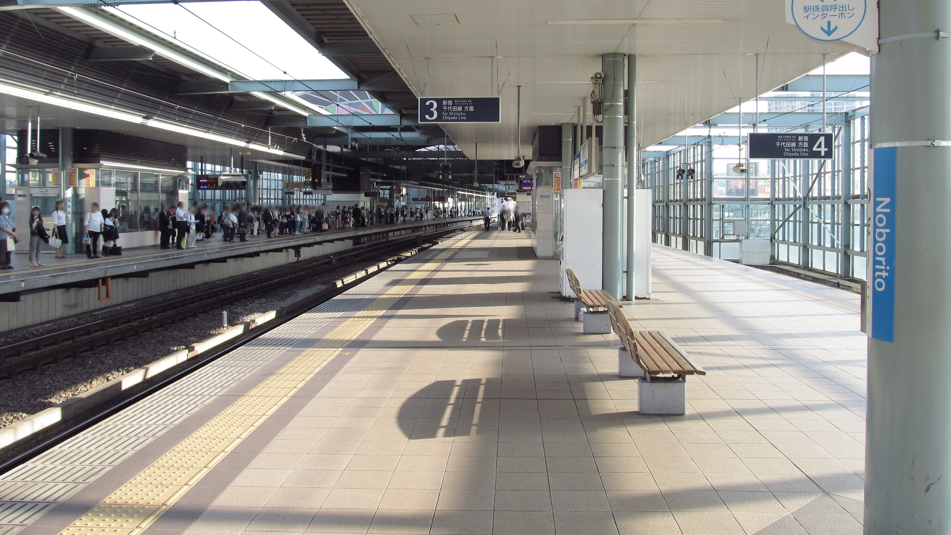 The platforms at Noborito Station on the Odakyū Electric Railway Odawara Line in Tama ward, Kawasaki city, Kanagawa prefecture, Japan